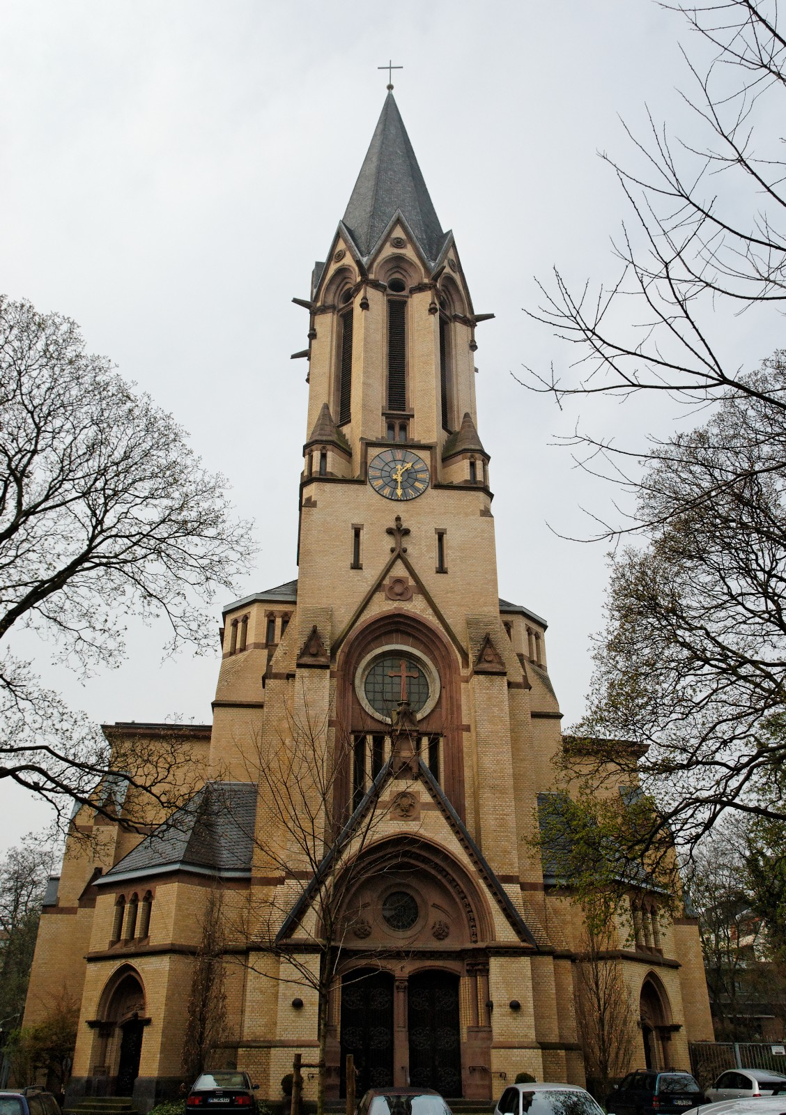 Church of Peace in Dusseldorf-Unterbilk, Germany